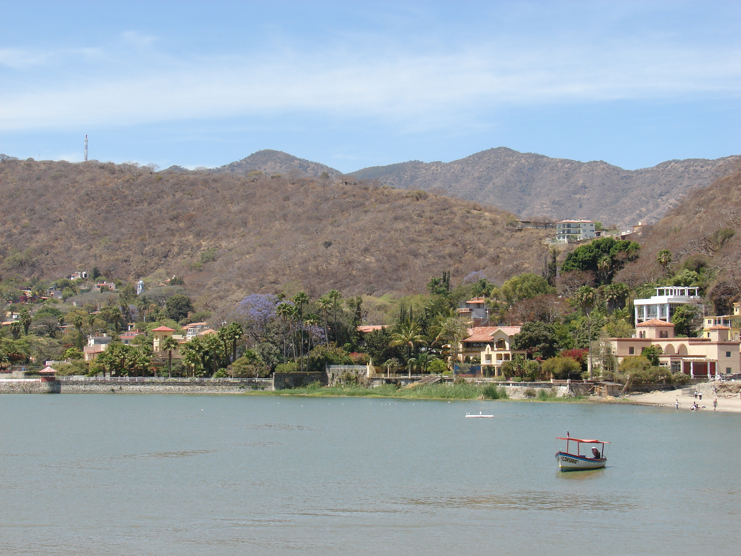 Overview of the bay Chapala, in the river from Lake same name in the state of Jalisco, Mexico.